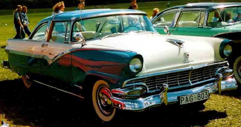 Ford Fairlane Crown Victoria 1956